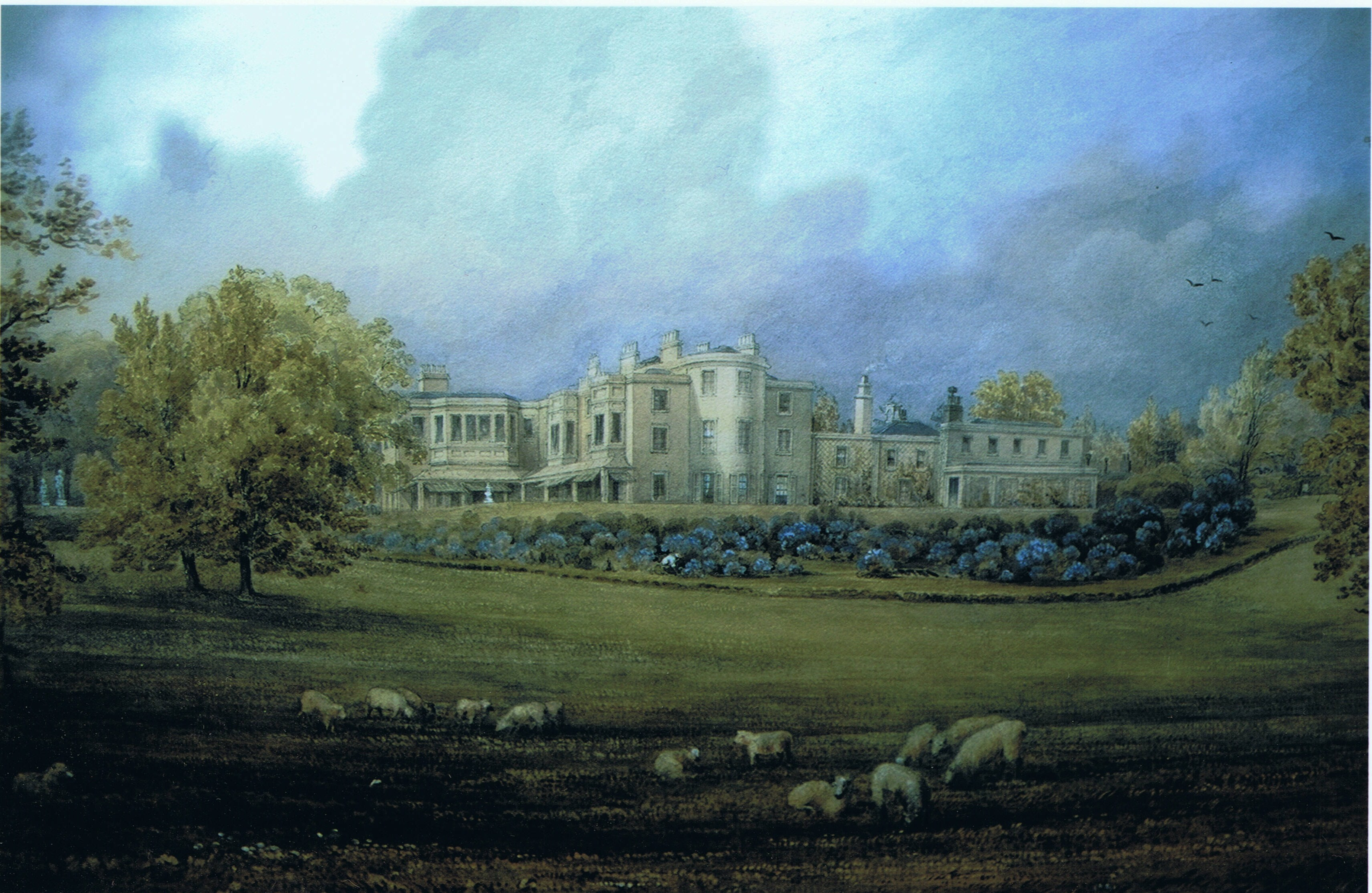 A watercolour drawing of Portnall Park, Virginia Water, Surrey, England, UK.